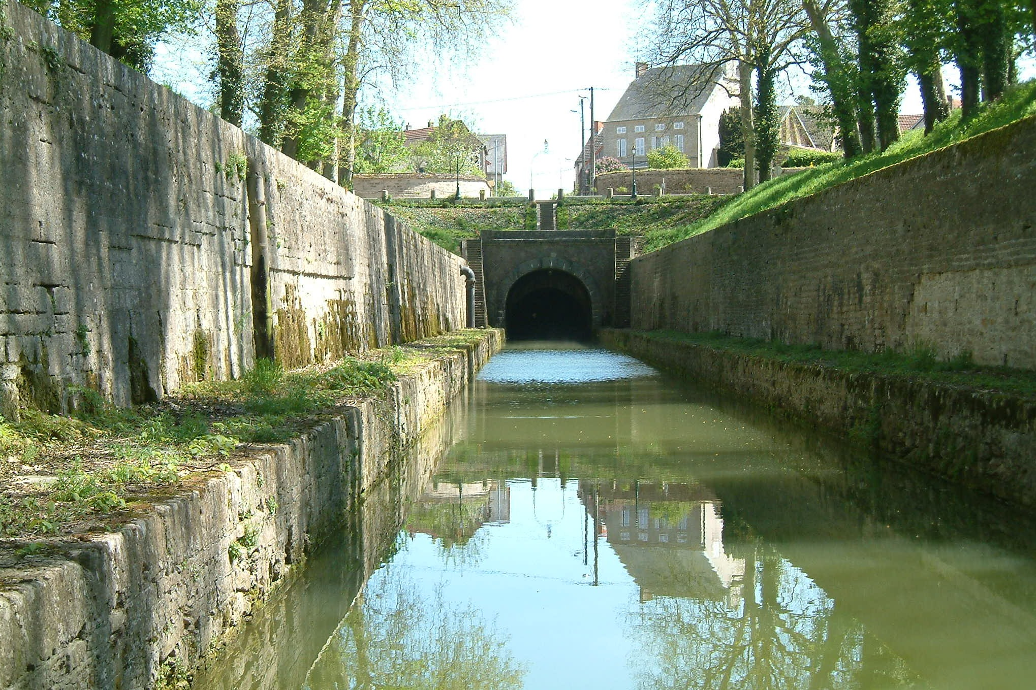 Canal of Burgundy, France